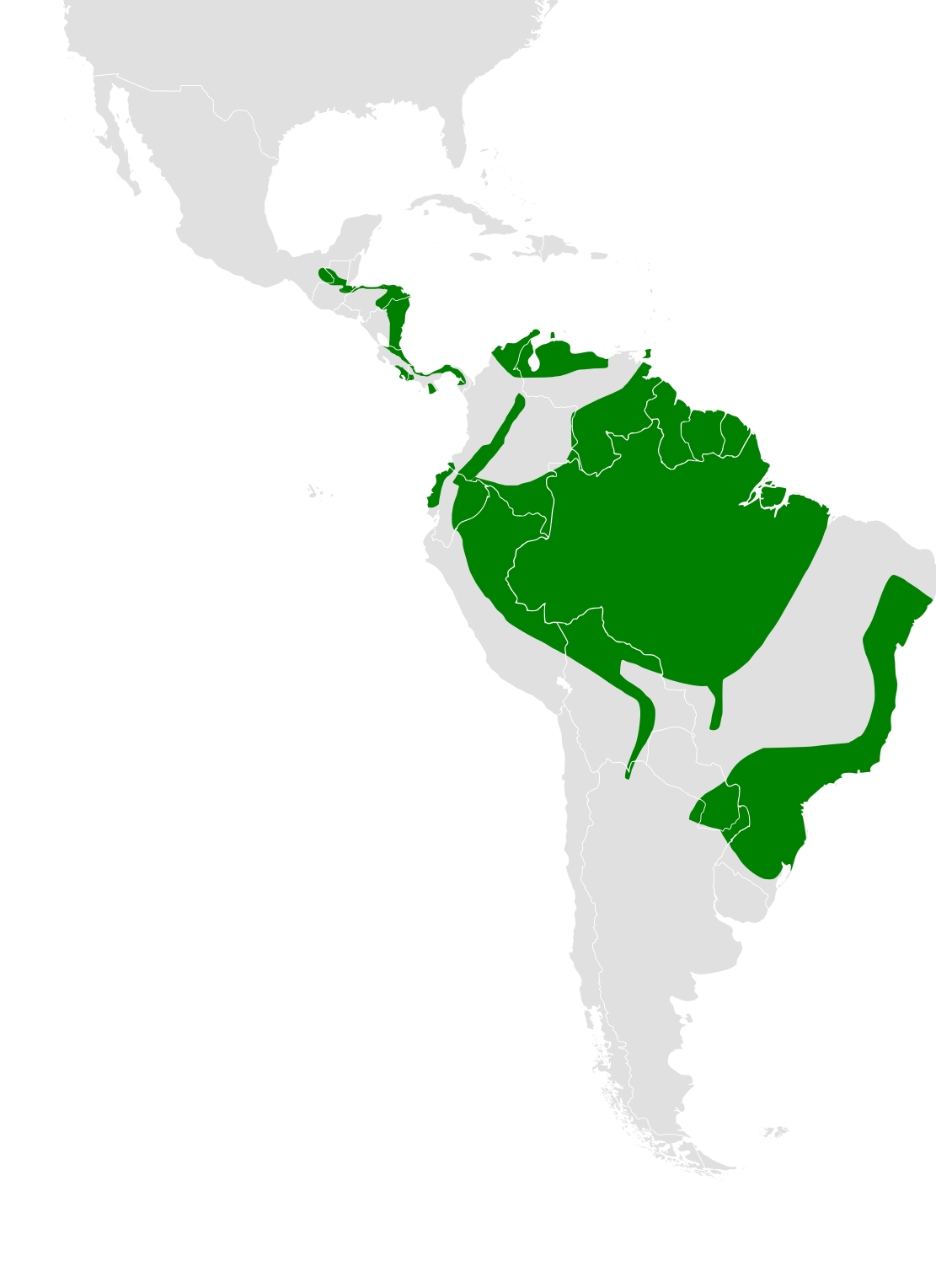 Extant distribution of the Short-tailed nighthawk (Lurocalis semitorquatus)